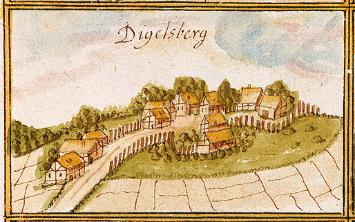 View of Diegelsberg, Uhingen, from the forest register books created by Andreas Kieser